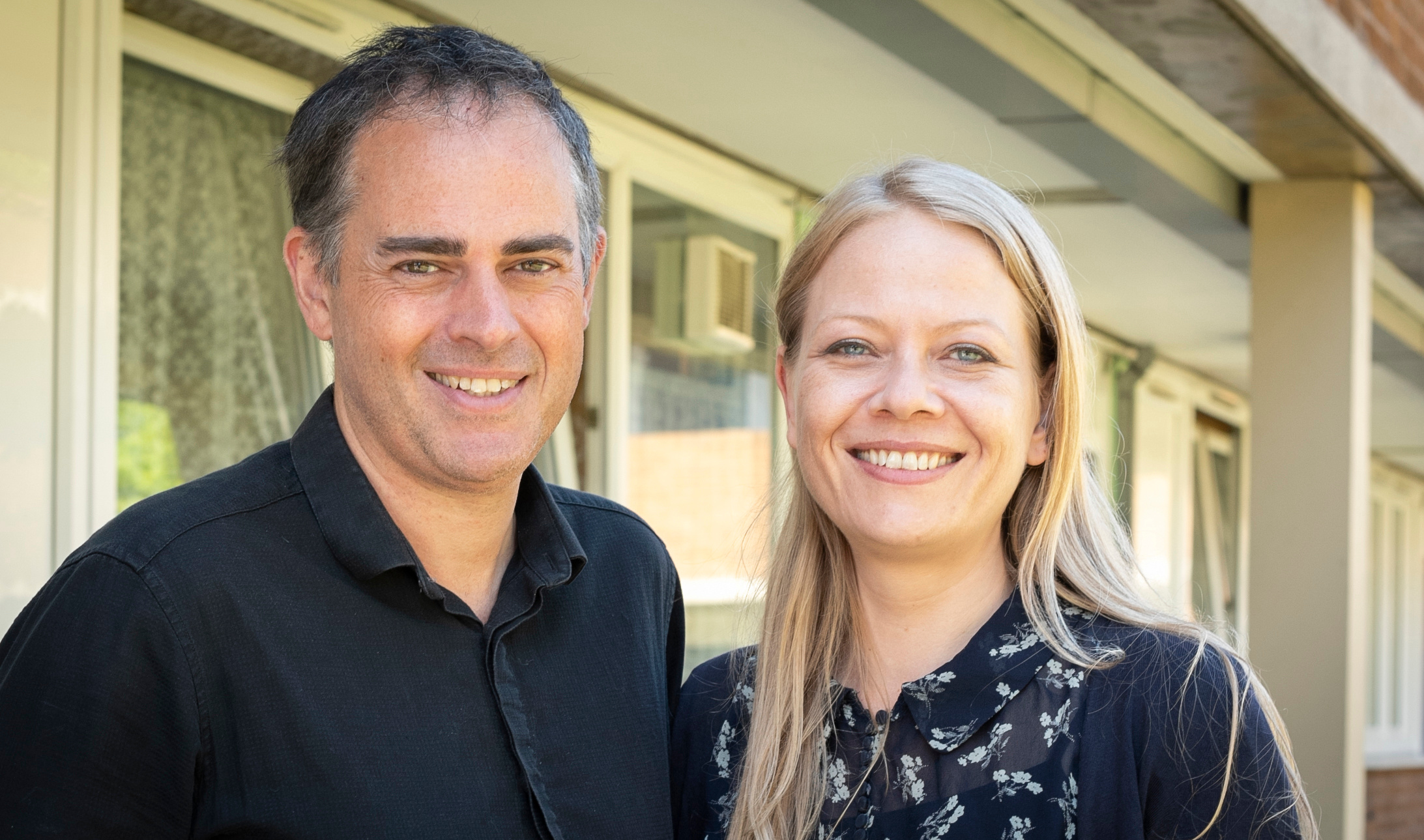 Sian Berry and Jonathan Bartley. Photography taken in 2018 for the Green Party leadership election.